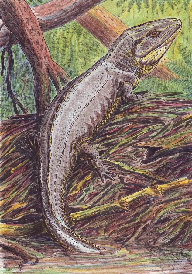 Proterogyrinus - reconstruction autor - Bogdanov